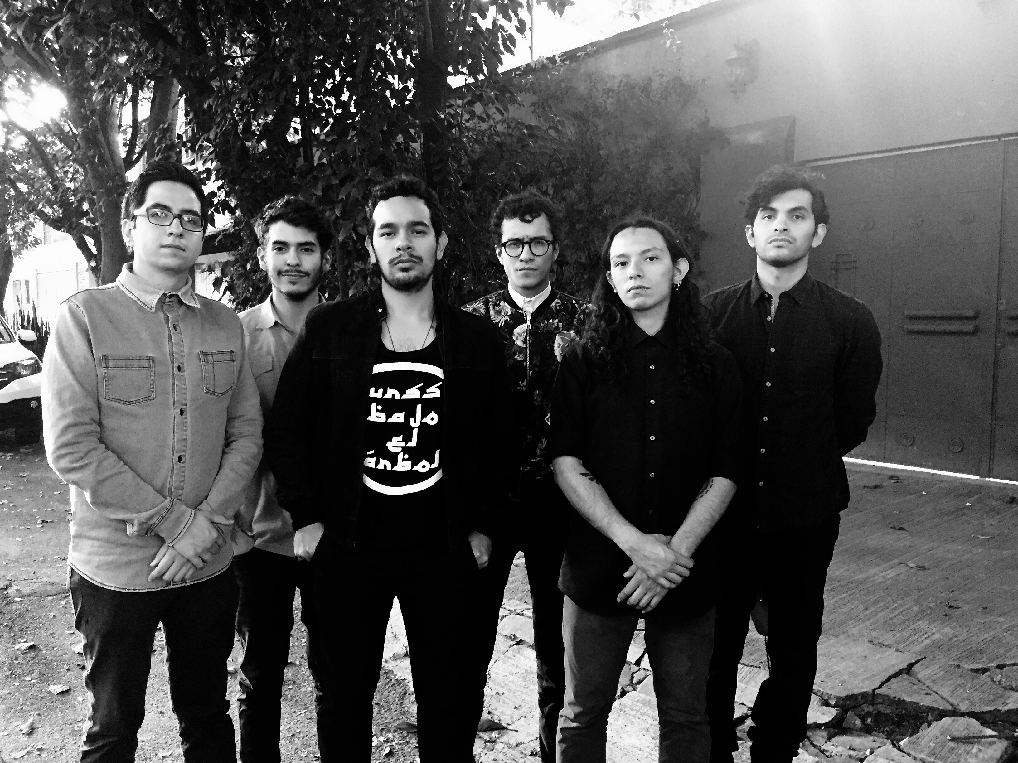 URSS bajo el árbol 2016